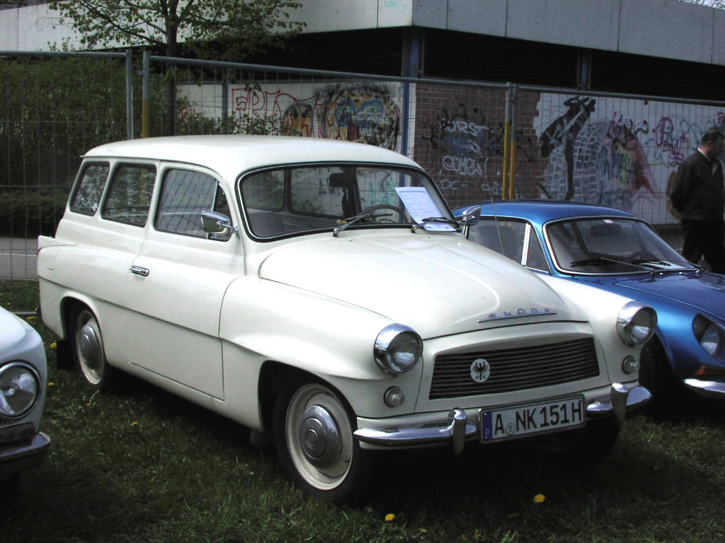 Škoda Octavia Station Wagon